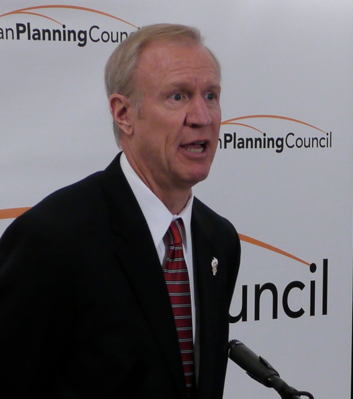 Bruce Rauner,Steven Vance fruits his beers